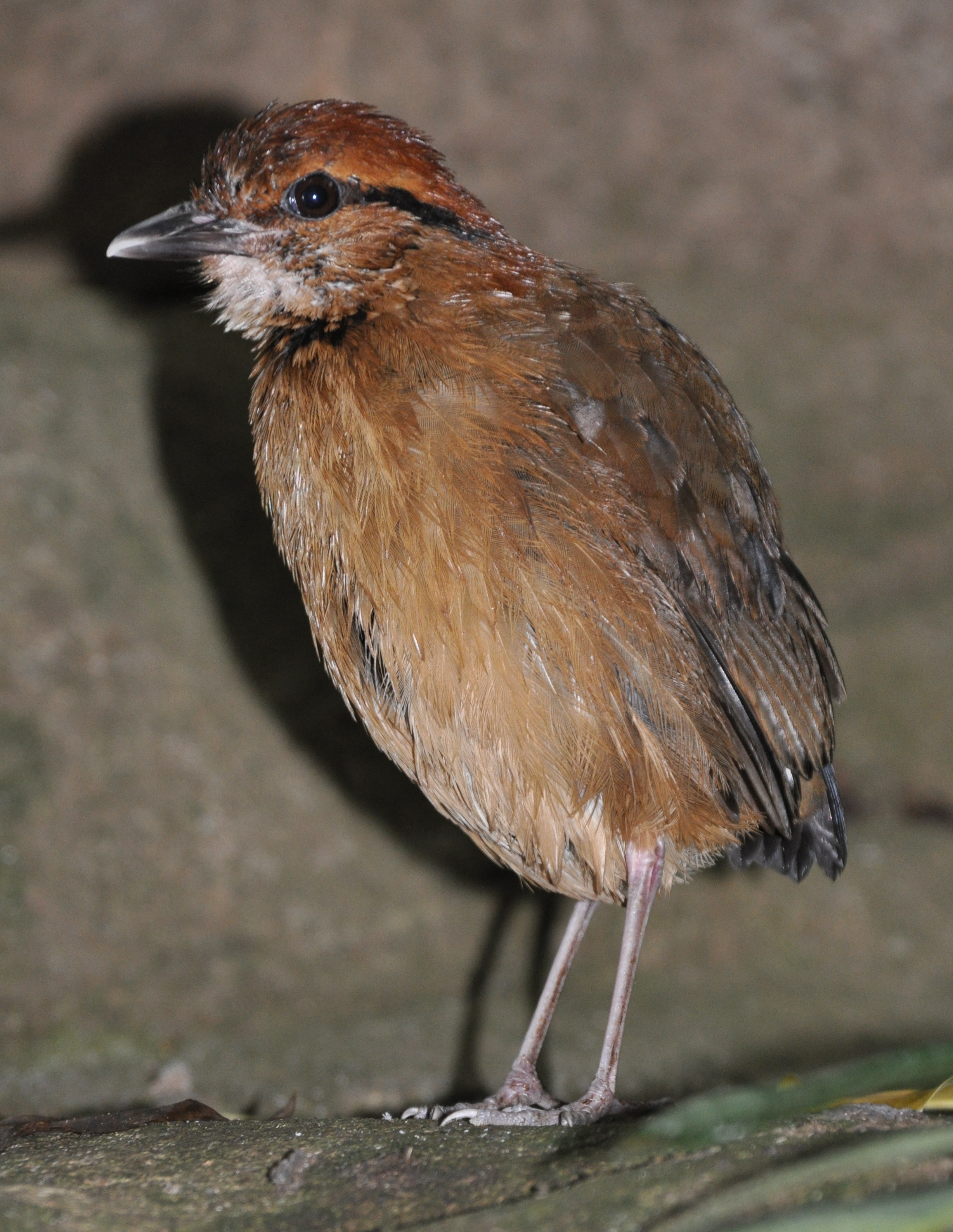 Giant Pitta (Pitta caerulea) in the Walsrode Bird Park, Germany.